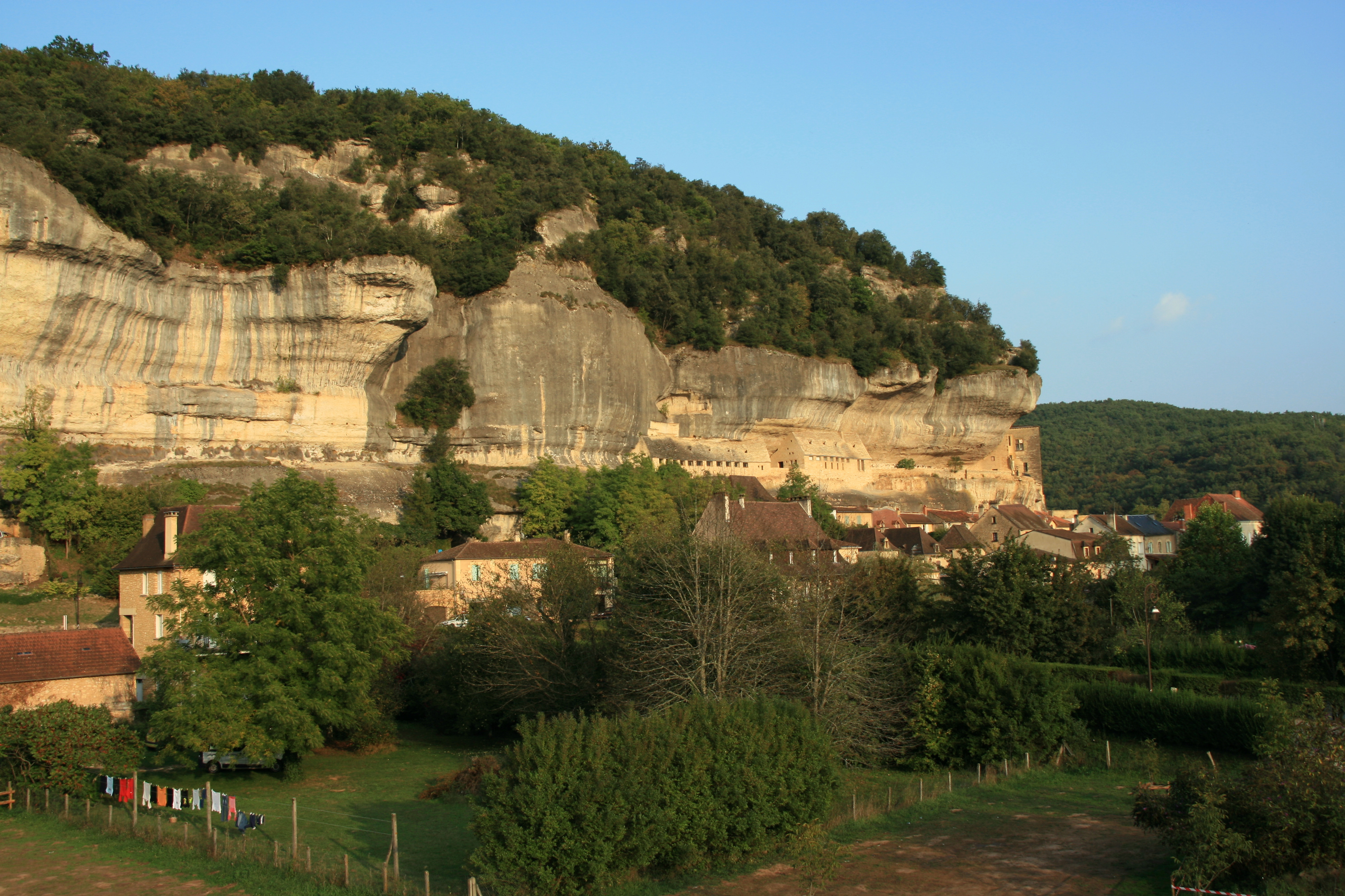 Village of Les Eyzies-de-Tayac, Dordogne, France.